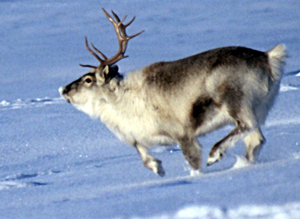 female Svalbard reindeer running